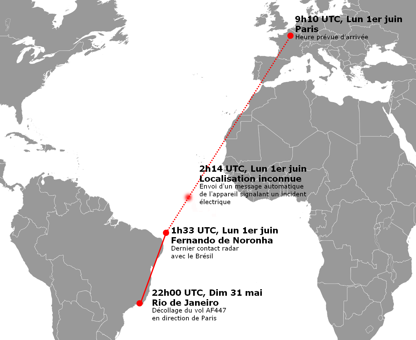 French version of the flight plan of Air France Flight 447 on 31 May-1 June 2009